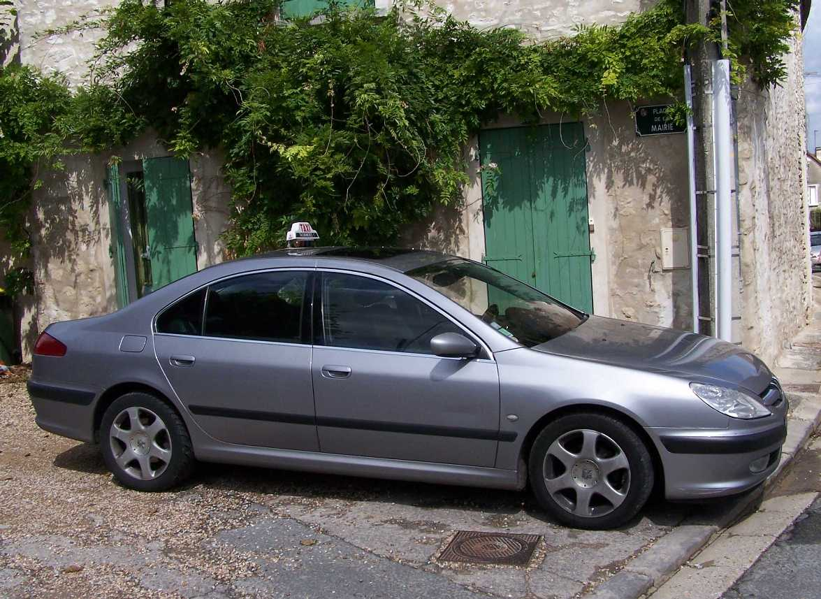 French taxi